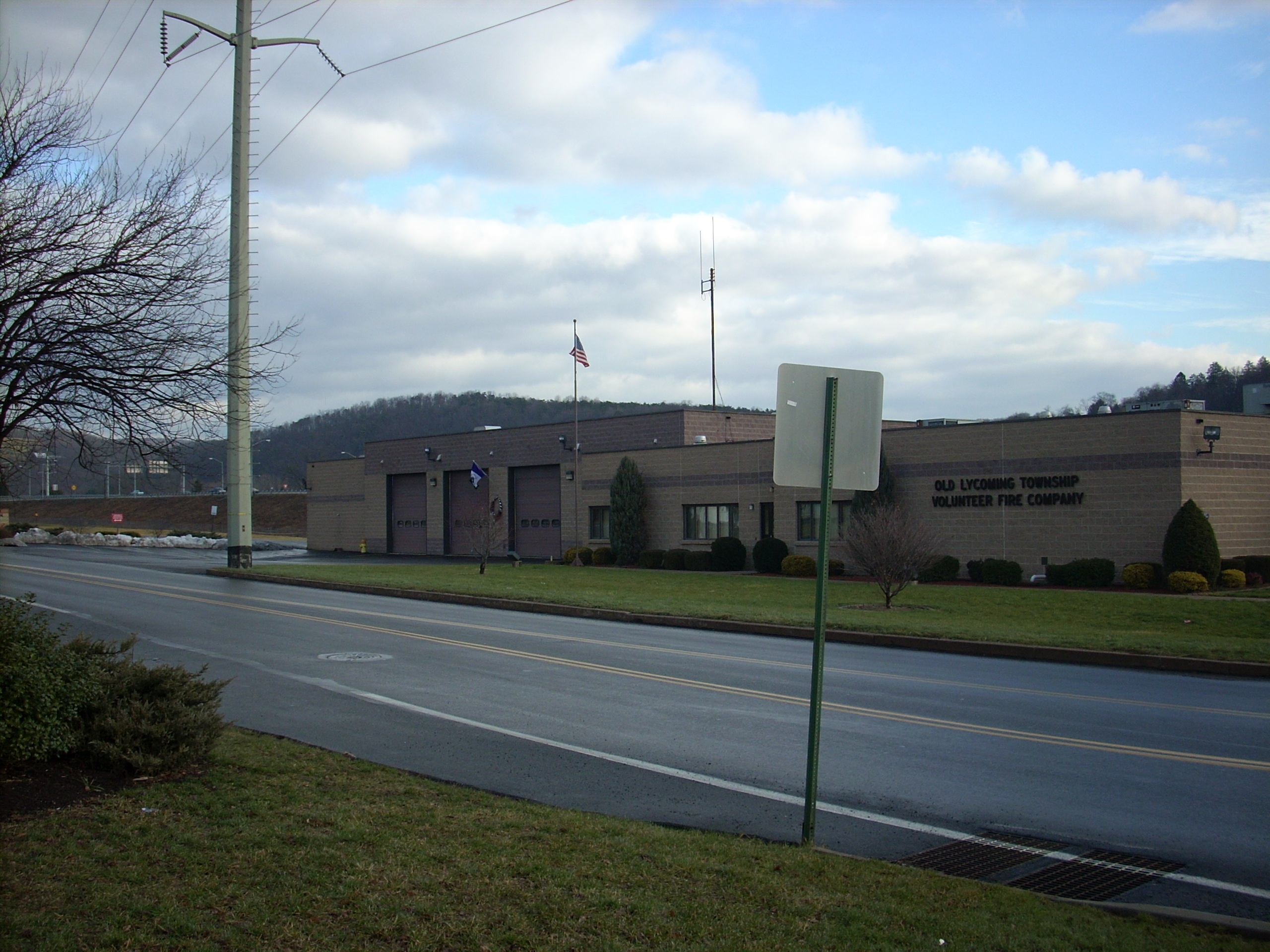 Old Lycoming Township Fire Hall in Garden View